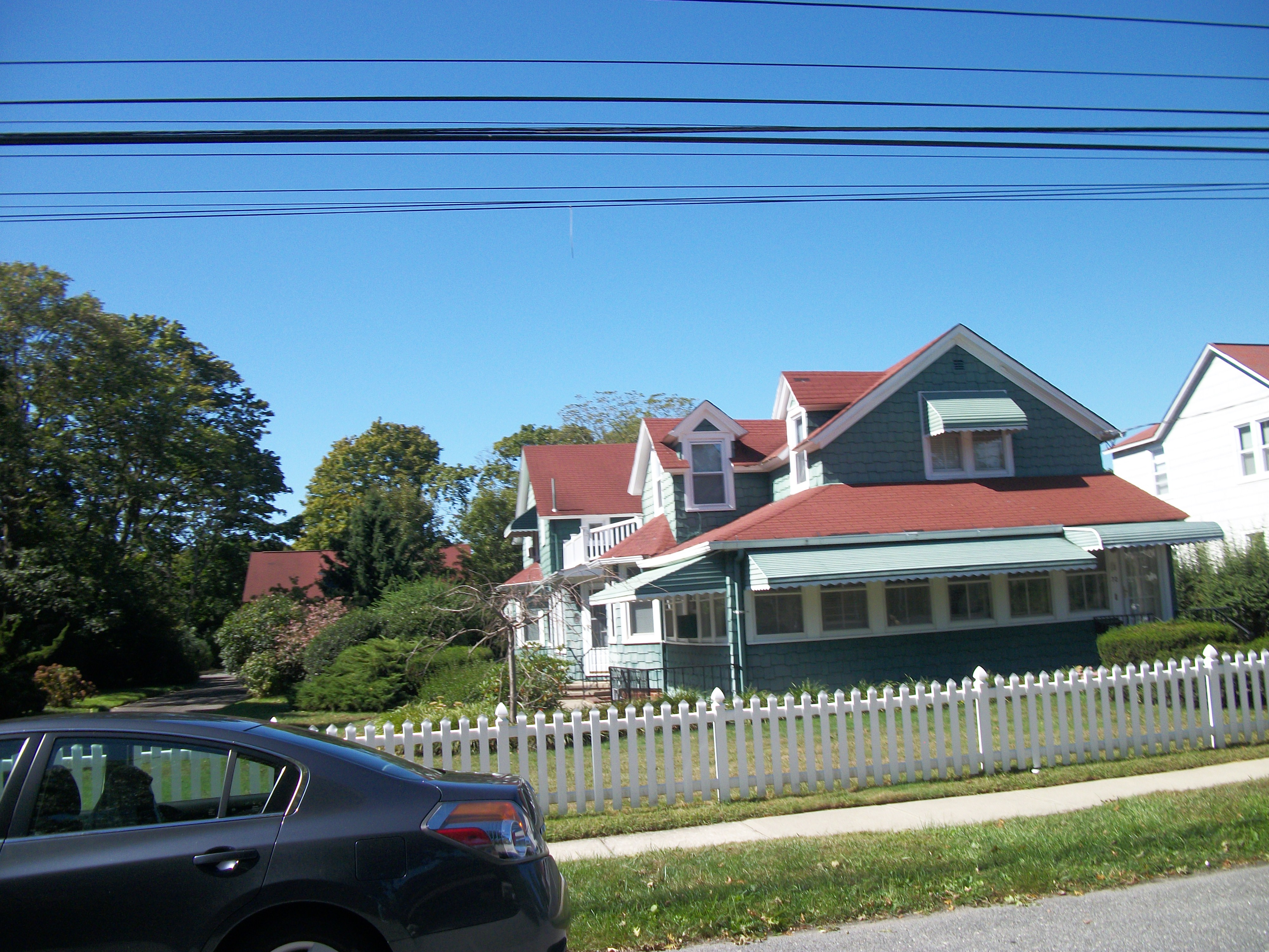 The elaborate "Father Divine House" at 72 Macon Avenue in Sayville, New York.